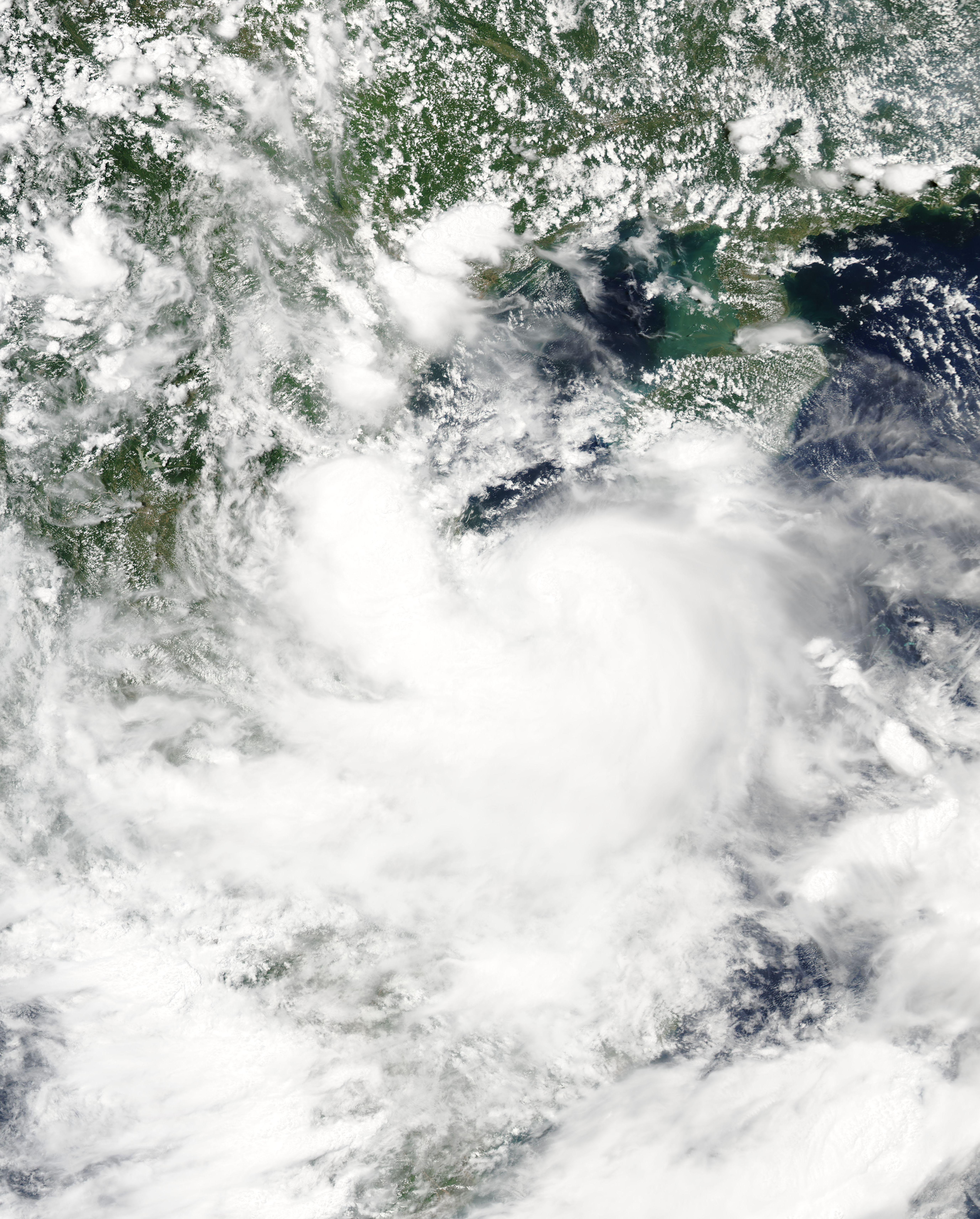 Tropical Storm Sonca (08W) nearing landfall while at its maximum intensity on July 25, 2017